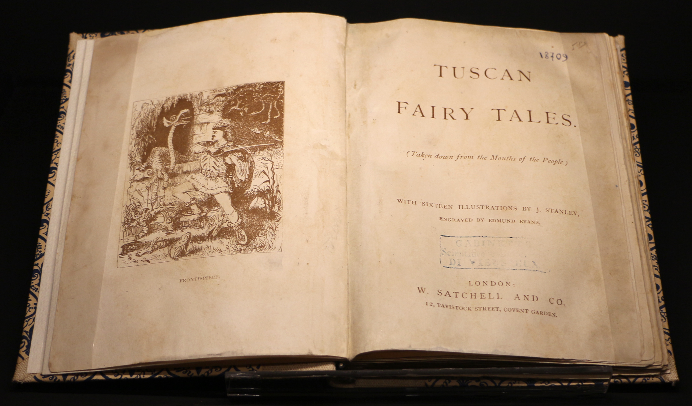 Books in Florence